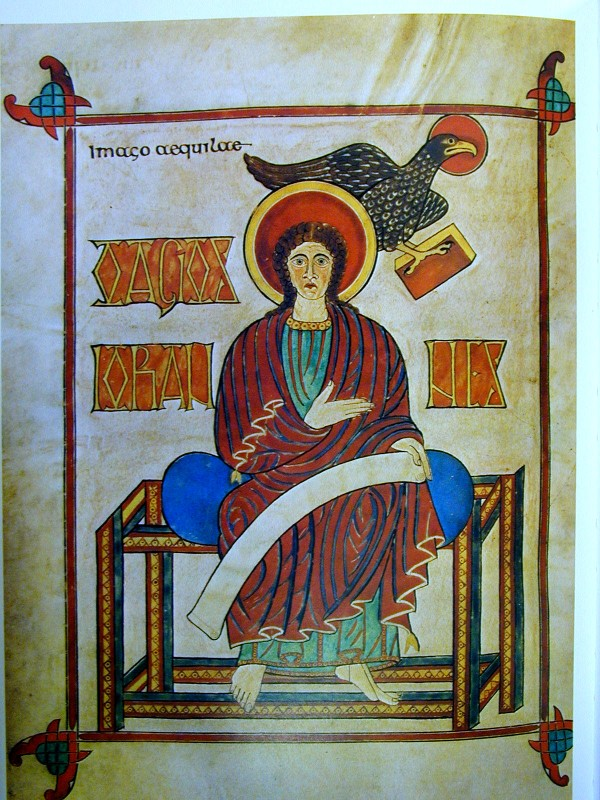 Folio 209v of the Lindisfarne Gospels showing John the Evangelist.